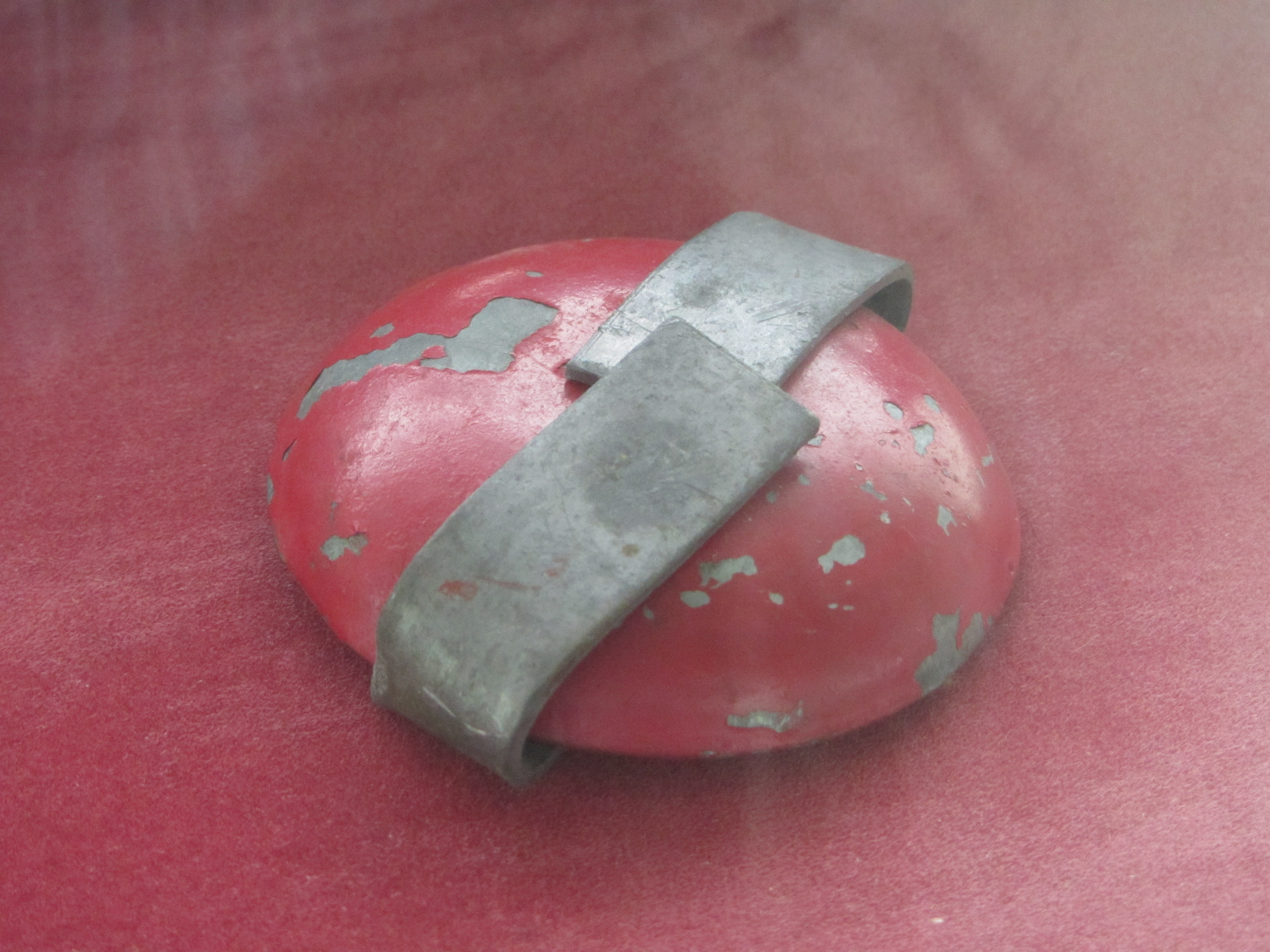 Railway detonator